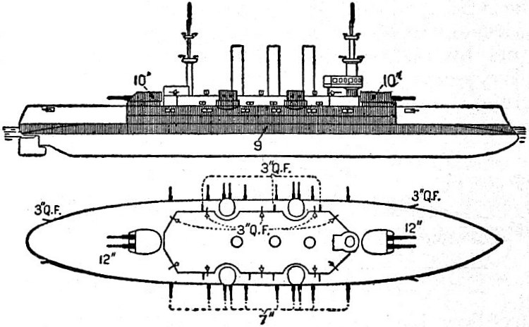 U. S. S. CONNECTICUT, 1902.